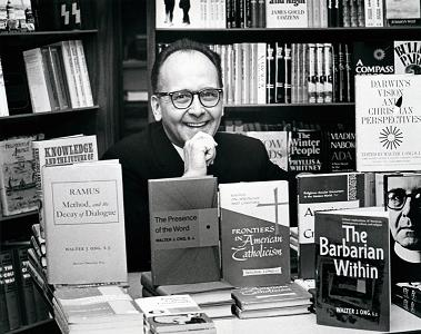 Young Walter Ong releasing his books